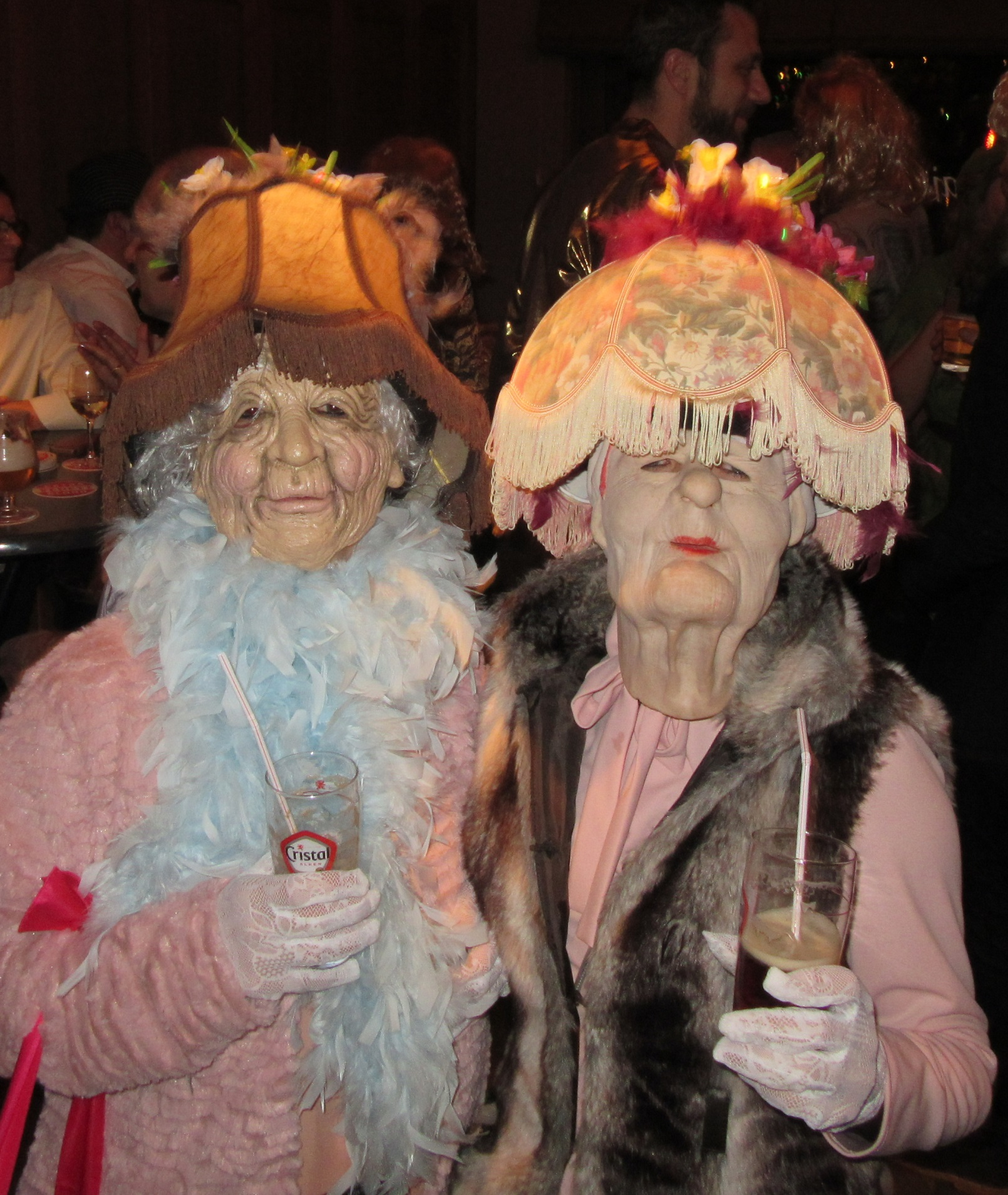 peoples dress as old women at the carnival in Maaseik